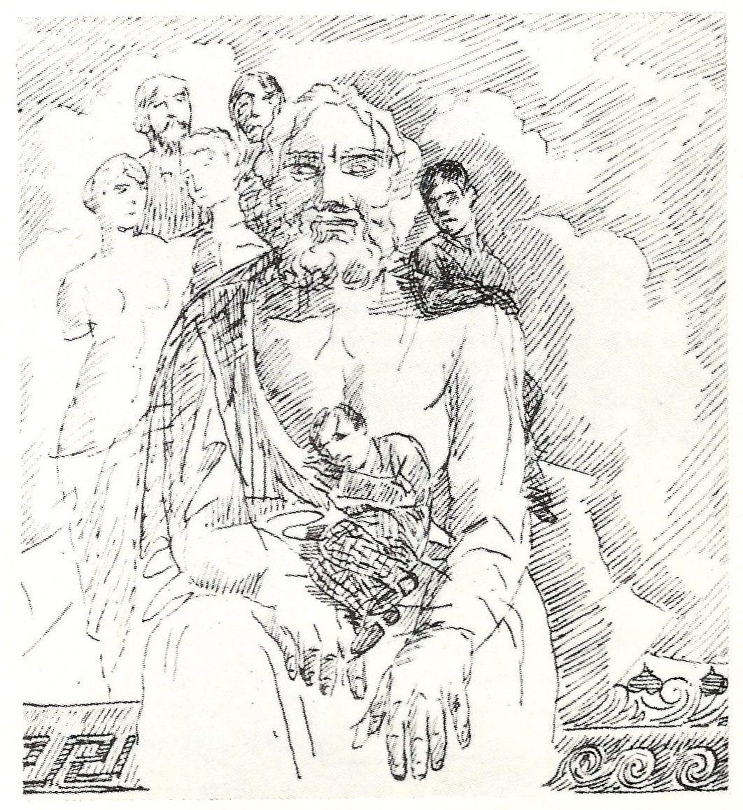 Sculpture of Zeus: Illustration for the book “Space of Euclid” (for the VII chapter “School of technical drawing”) Ink, pen on paper. 17,2 x 16,9 sm The drawing is located in the State Russian Museum in St. Petersburg, Russia